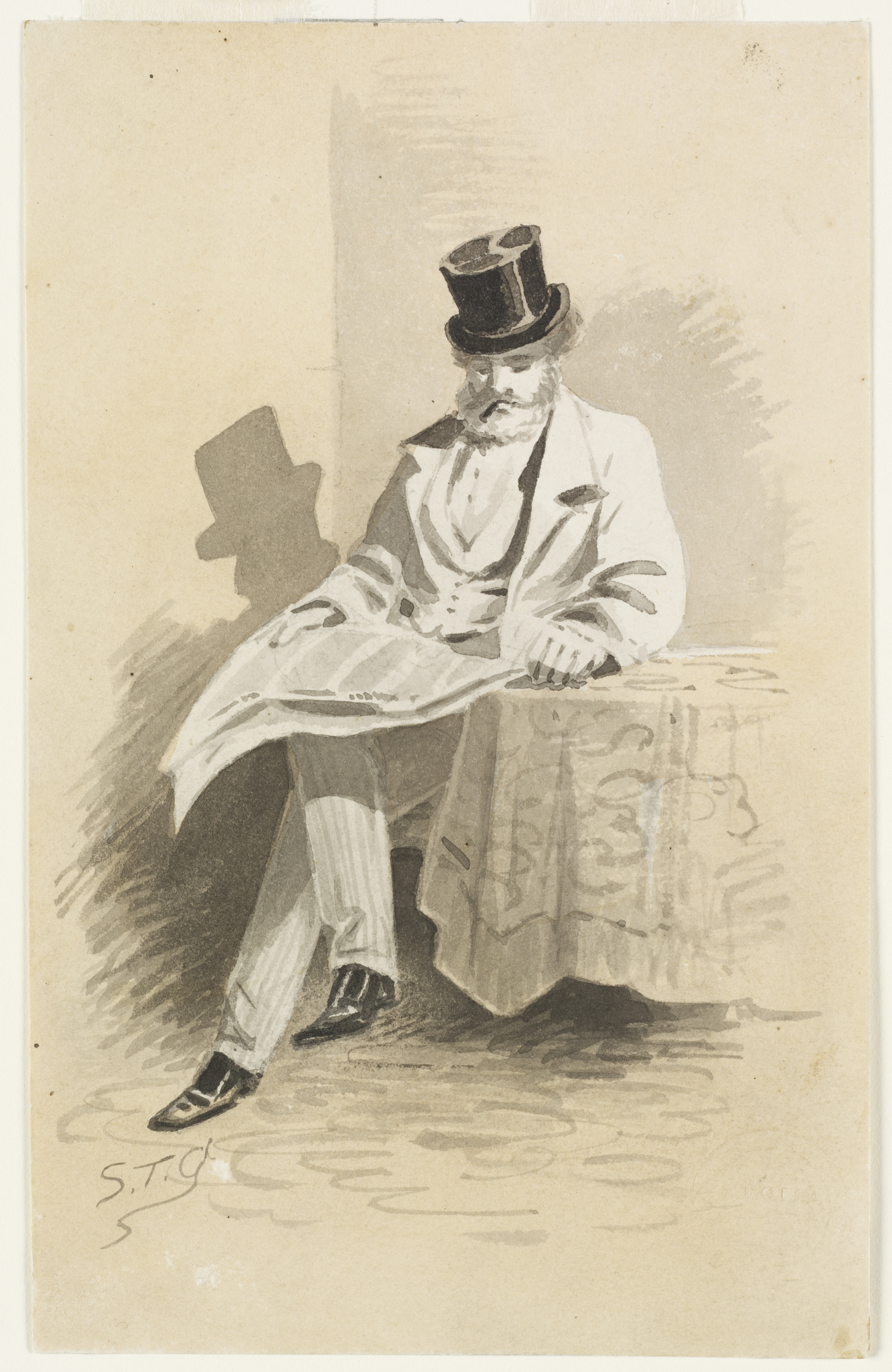 S.T. Gill, “Design for theatrical costume”, in a sketchbook by Gill, Mitchell Library, State Library of New South Wales.